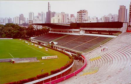 Football & Basketball Facilities Sao Paulo BRAZIL Stadium